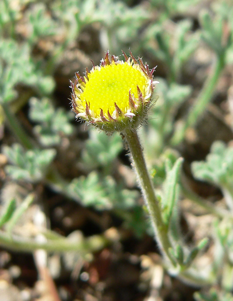 Photo of Erigeron vagus at the Regional Parks Botanic Garden, Berkeley, California